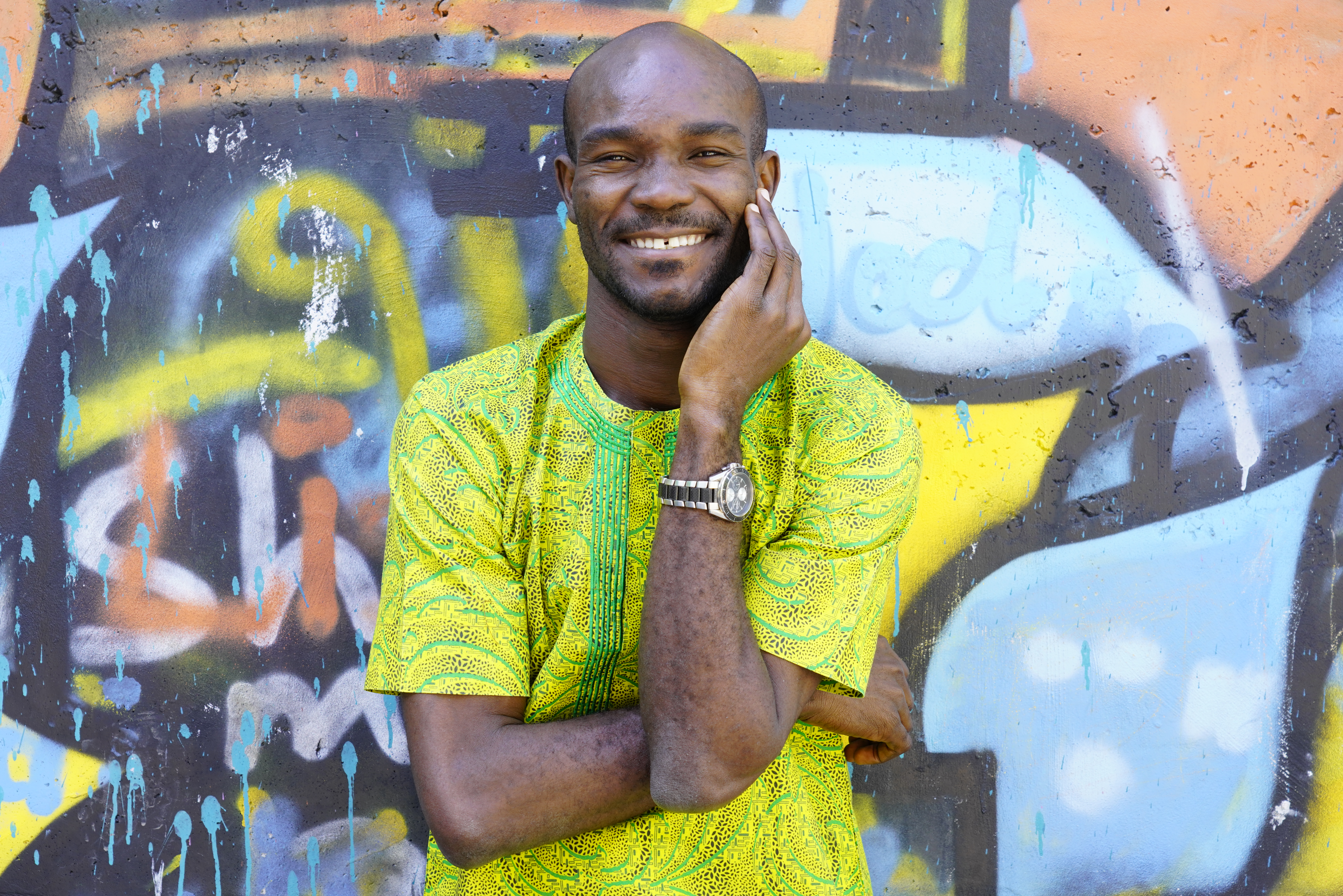 Wikimedia Conference 2018 by Satdeep Gill